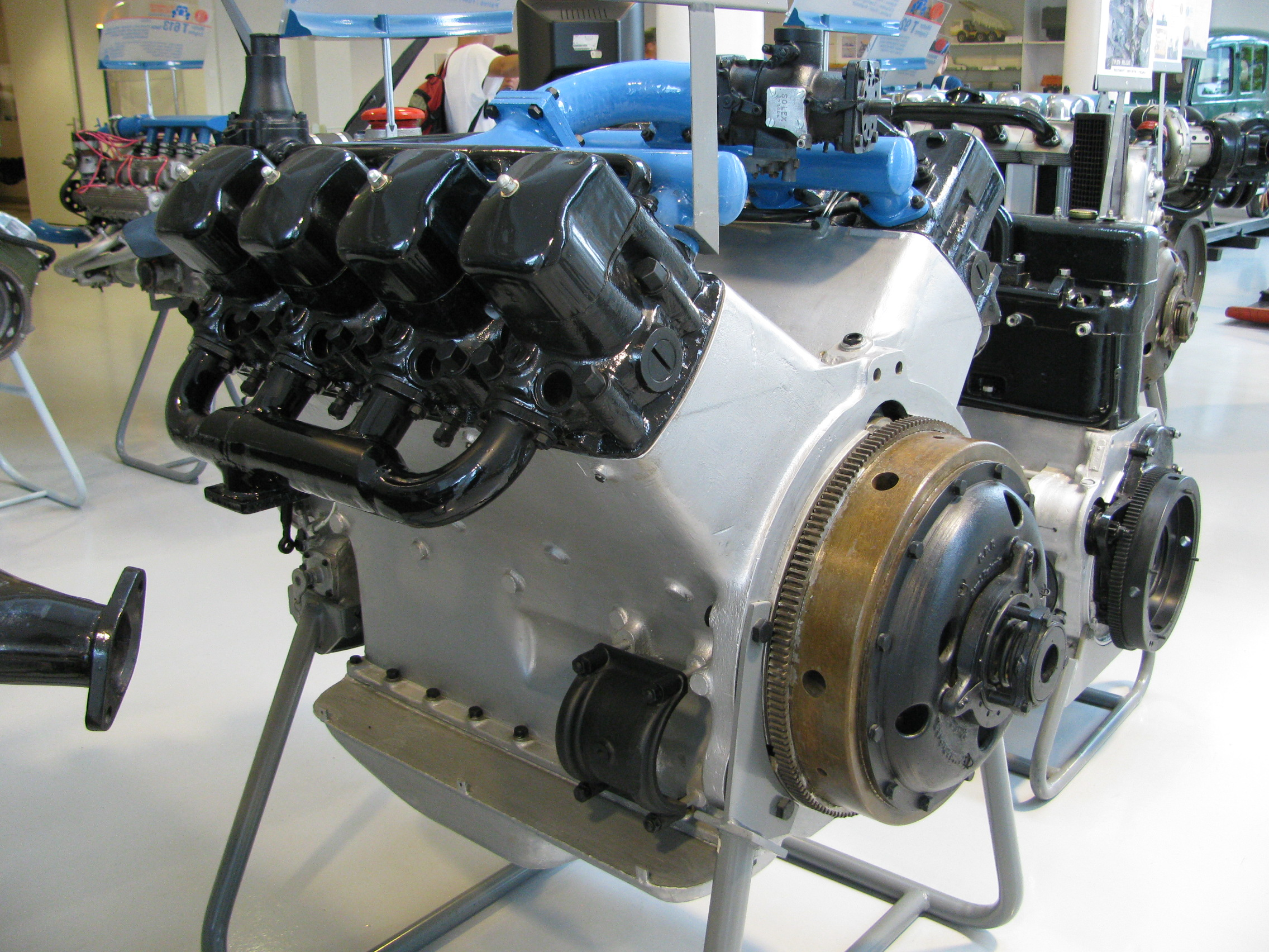 Tatra T81H wood gas V8 engine from 1942 in Tatra Technical Museum in Kopřivnice, Czech Republic; Bore/stroke: 125 mm/150 mm; displacement 14.726 cm³